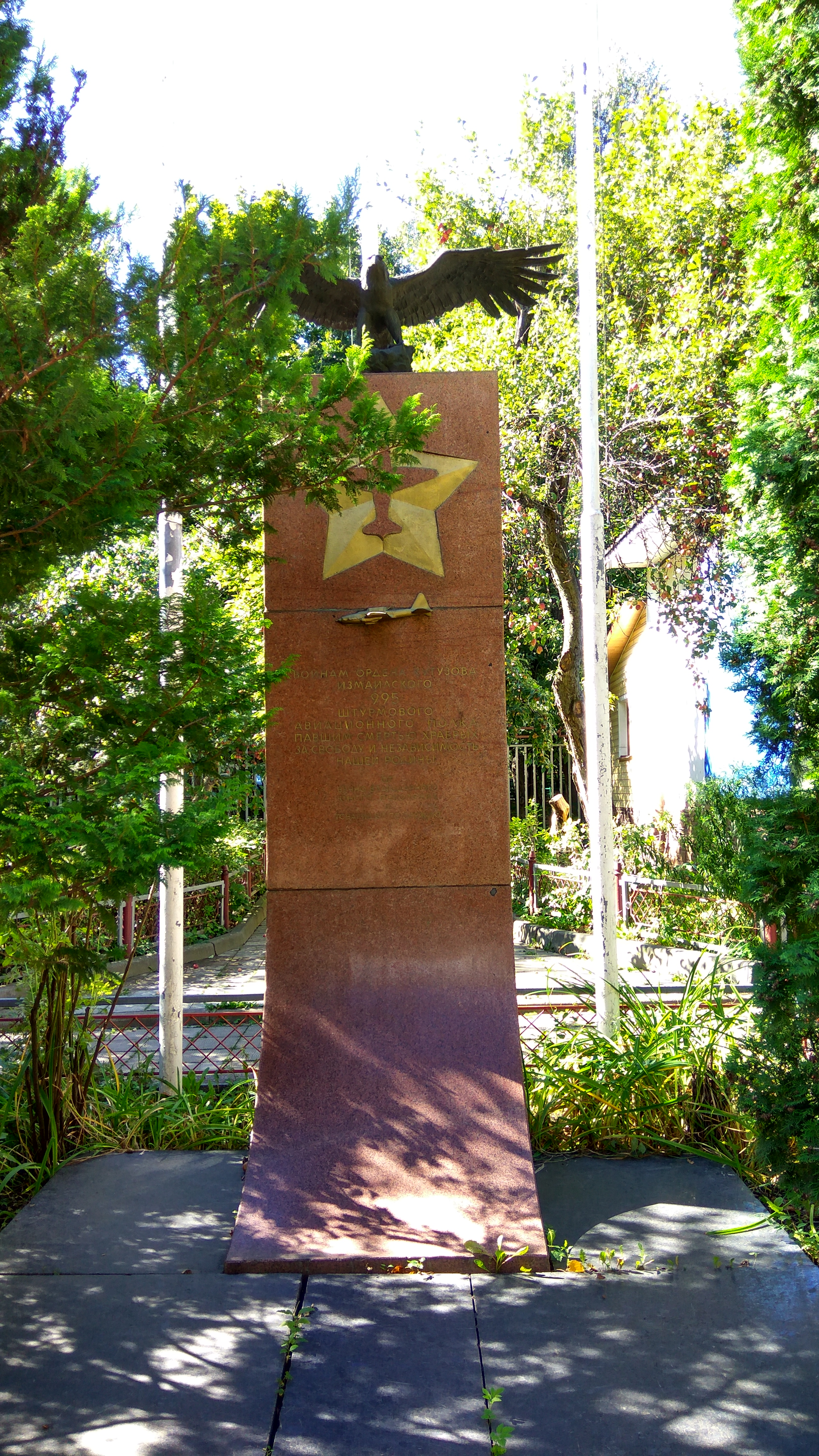 A monument in the Moscow school courtyard, dedicated to the soldiers of 995th assault aviation regiment, part of 306th assault aviation division. It is engraved: "To the Warriors of Order of Kutuzov Izmailovskii 995th Assault Aviation Regiment who fallen a hero's death for the freedom and independence of our Motherland"